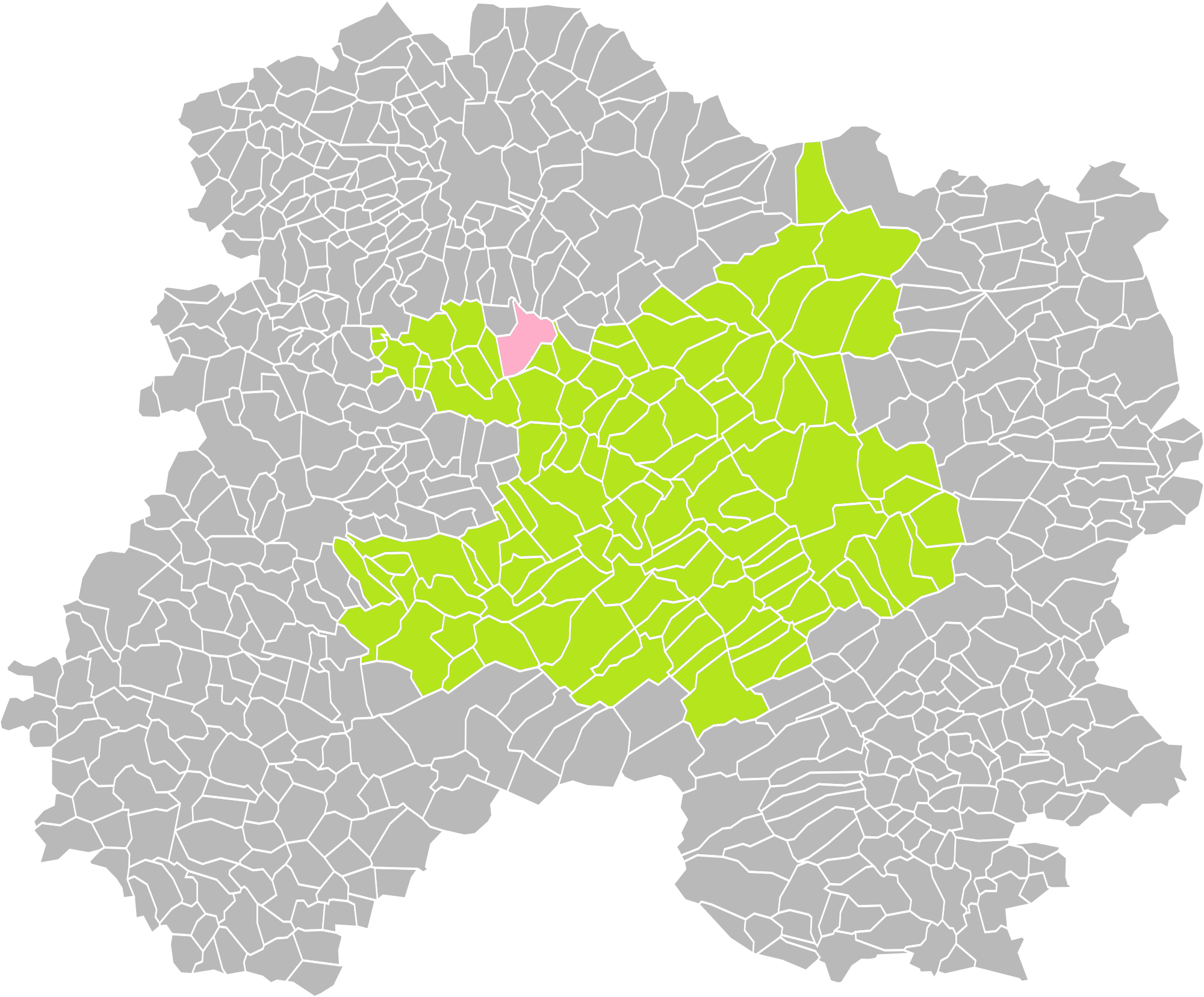 Location of the commune of Val-de-Livre in the arrondissement of Châlons-en-Champagne (Marne)